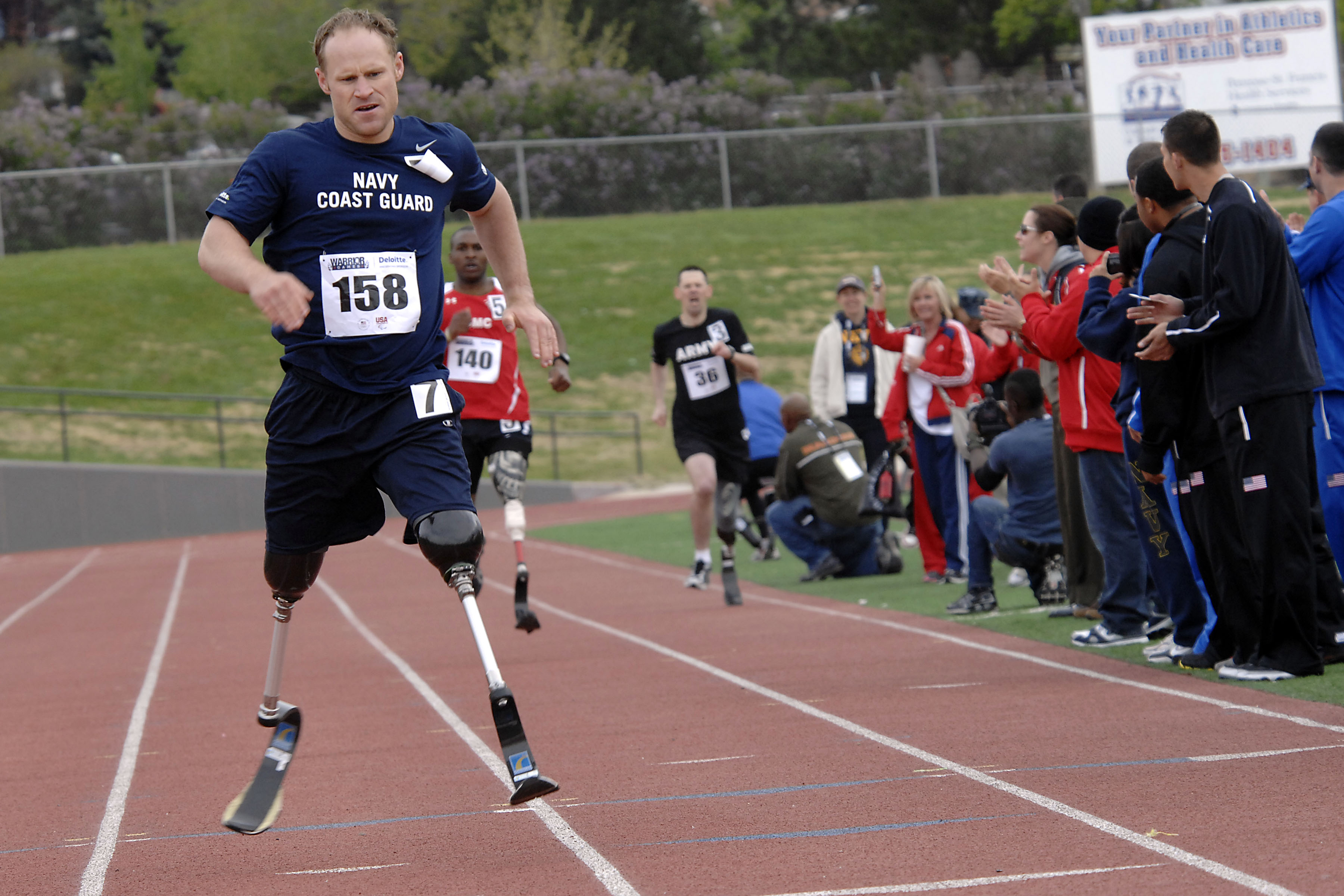 COLORADO SPRINGS, Colo. (May 17, 2011) Team Navy/Coast Guard member Lt. Daniel B. Cnossen runs the 800-meter during the second annual Warrior Games. The Warrior Games is a Paralympic-style sport event among 200 seriously wounded, ill, and injured service members from the U.S. Army, Navy, Air Force, Marine Corps, and Coast Guard. (U.S. Navy photo by Mass Communication Specialist 1st Class Andre N. McIntyre/Released)